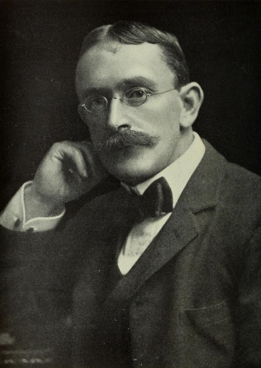 Portrait of Eldon Gorst